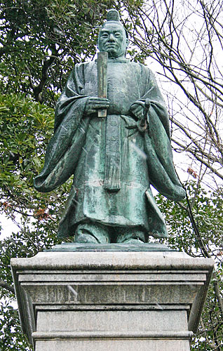 Statue of Ii Naosuke at Hikone Castle, Shiga Prefecture, Japan. Photo by Philbert Ono. Estatua de Ii Naosuke en el Castillo Hikone, Prefectura de Shiga, Japón.